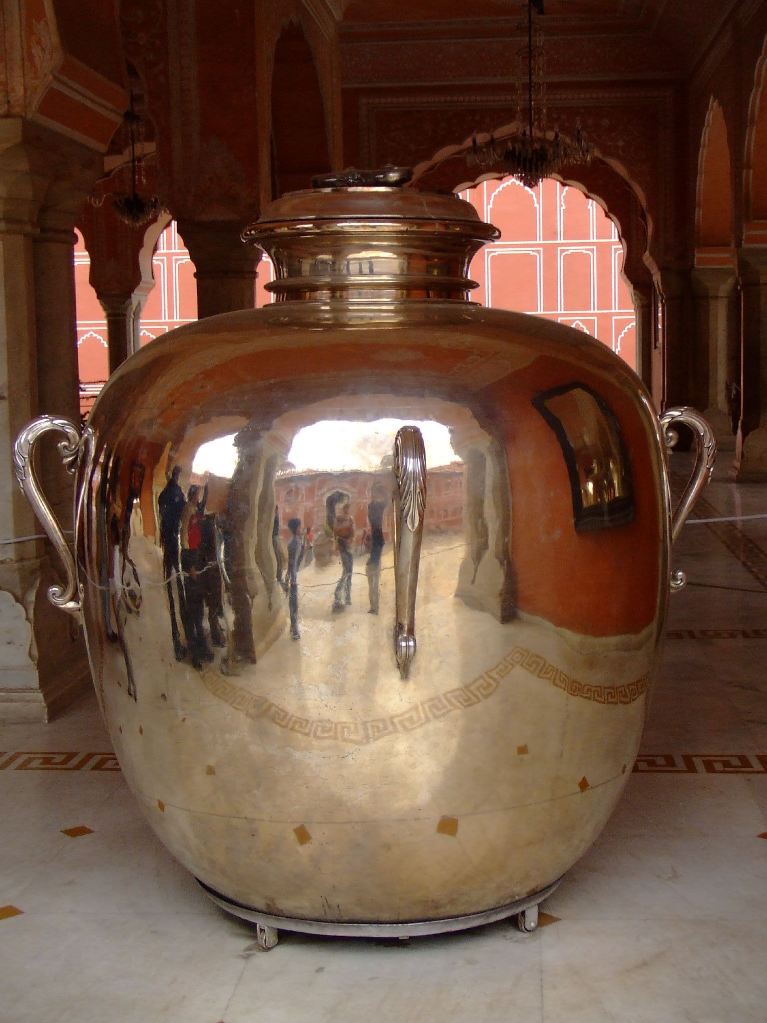 City Palace